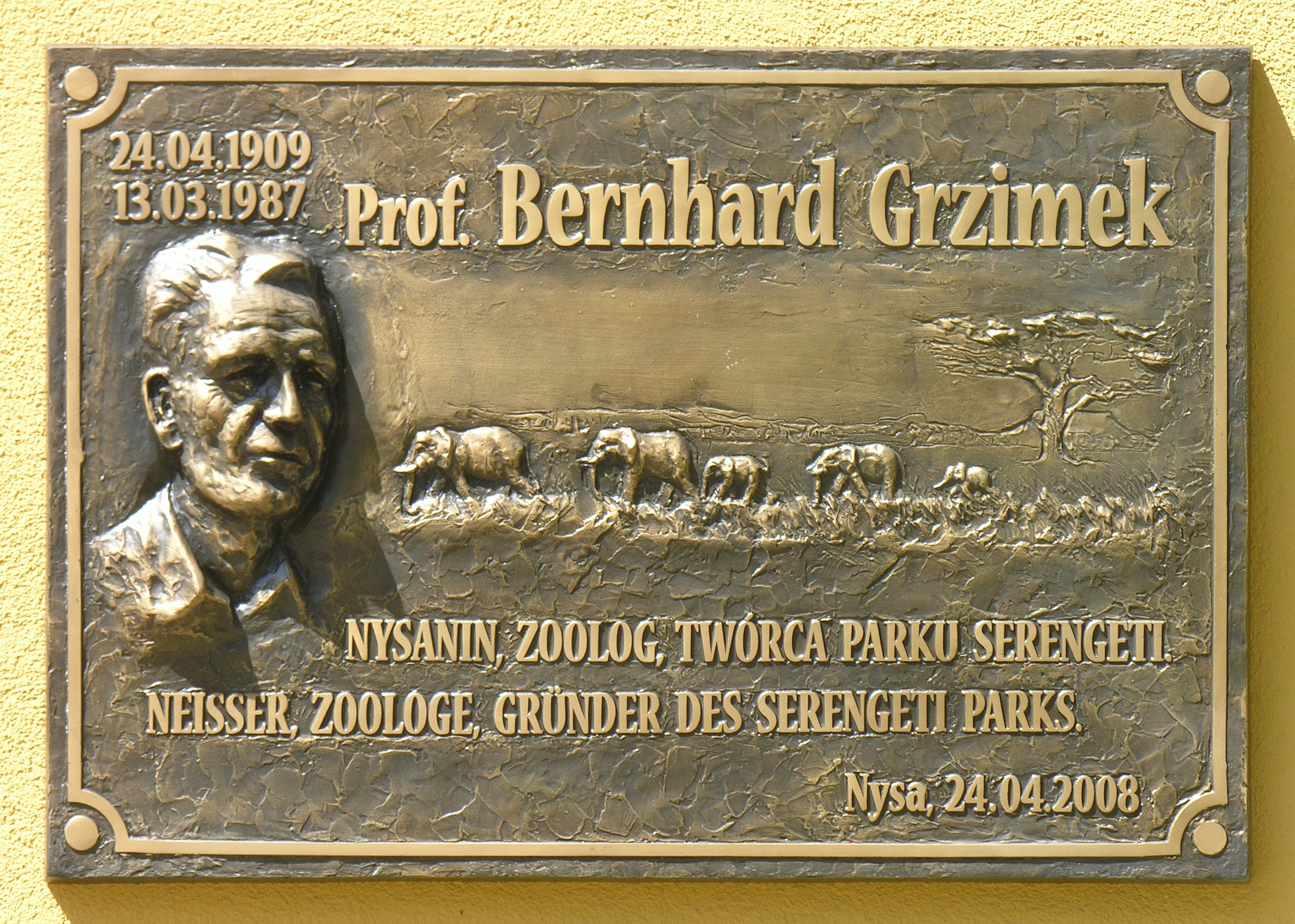 The plaque for Bernhard Grzimek in Nysa, Poland. Iscription in Polish and